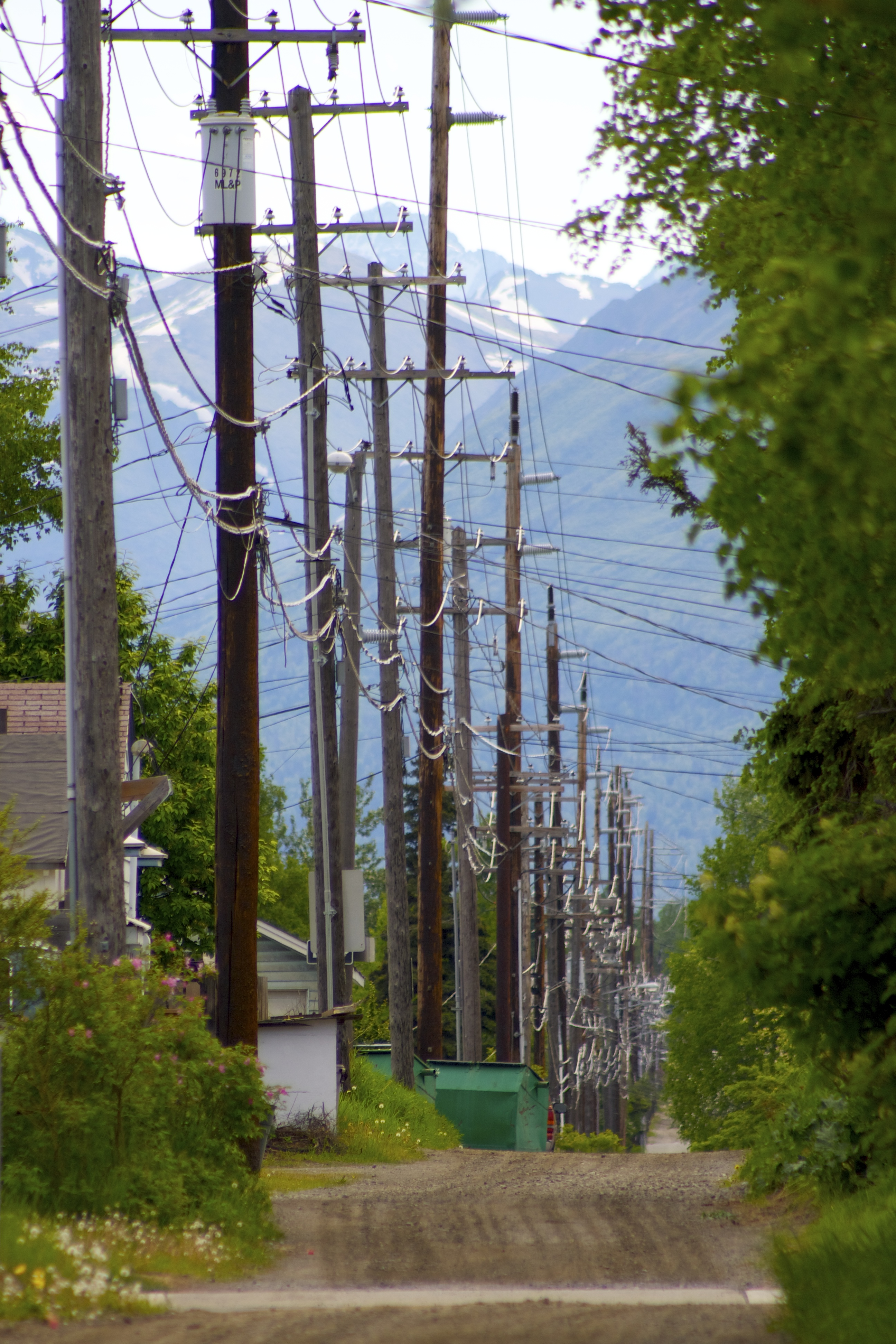 June 2010. Long shot of rows of utility poles beside a road on a hillside, illustrating distance compression dependent on perspective and angle.